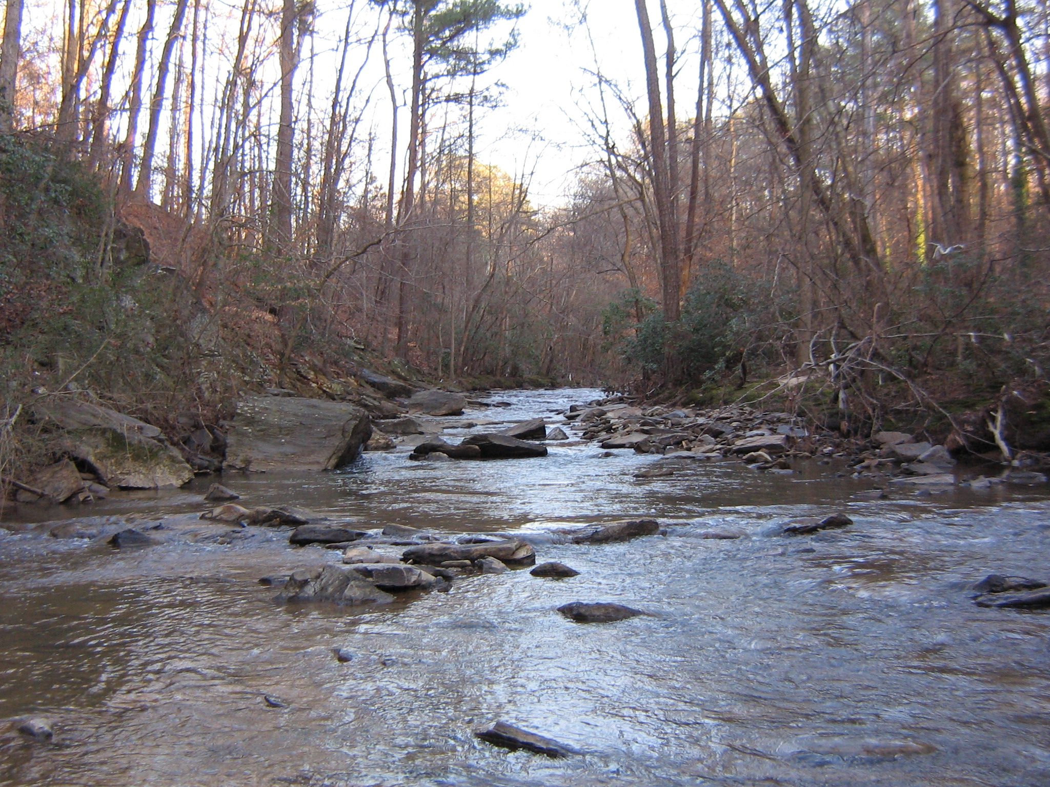 Nancy Creek — Murphey Candler Park, Brookhaven (Atlanta), Georgia. In the upper Apalachicola Basin (ACF Basin) watershed.